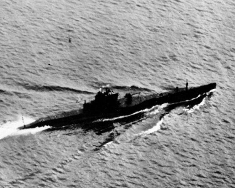 United States Navy submarine probably off San Diego, California.